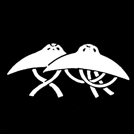 Crest Yagyu umbrellas